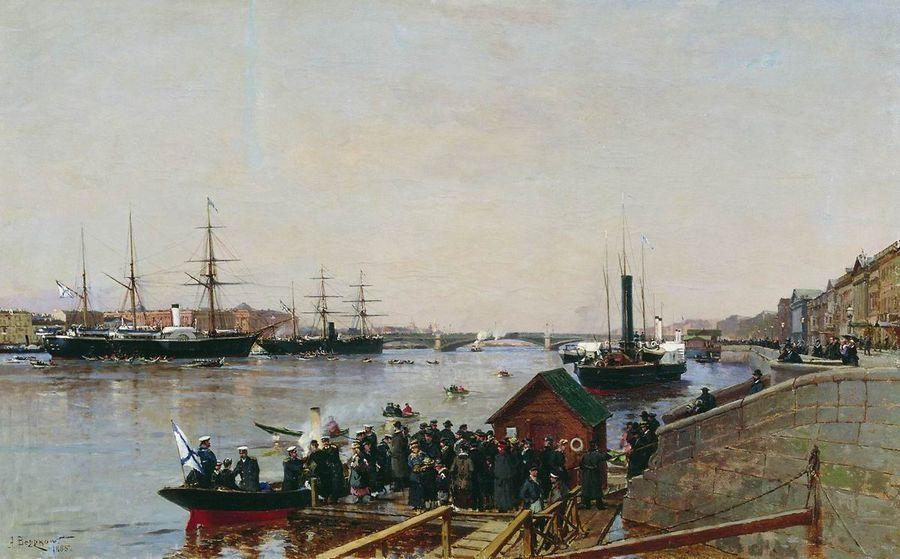 Alexander Karlovich Beggrov (1841-1914) Pier on the Neva